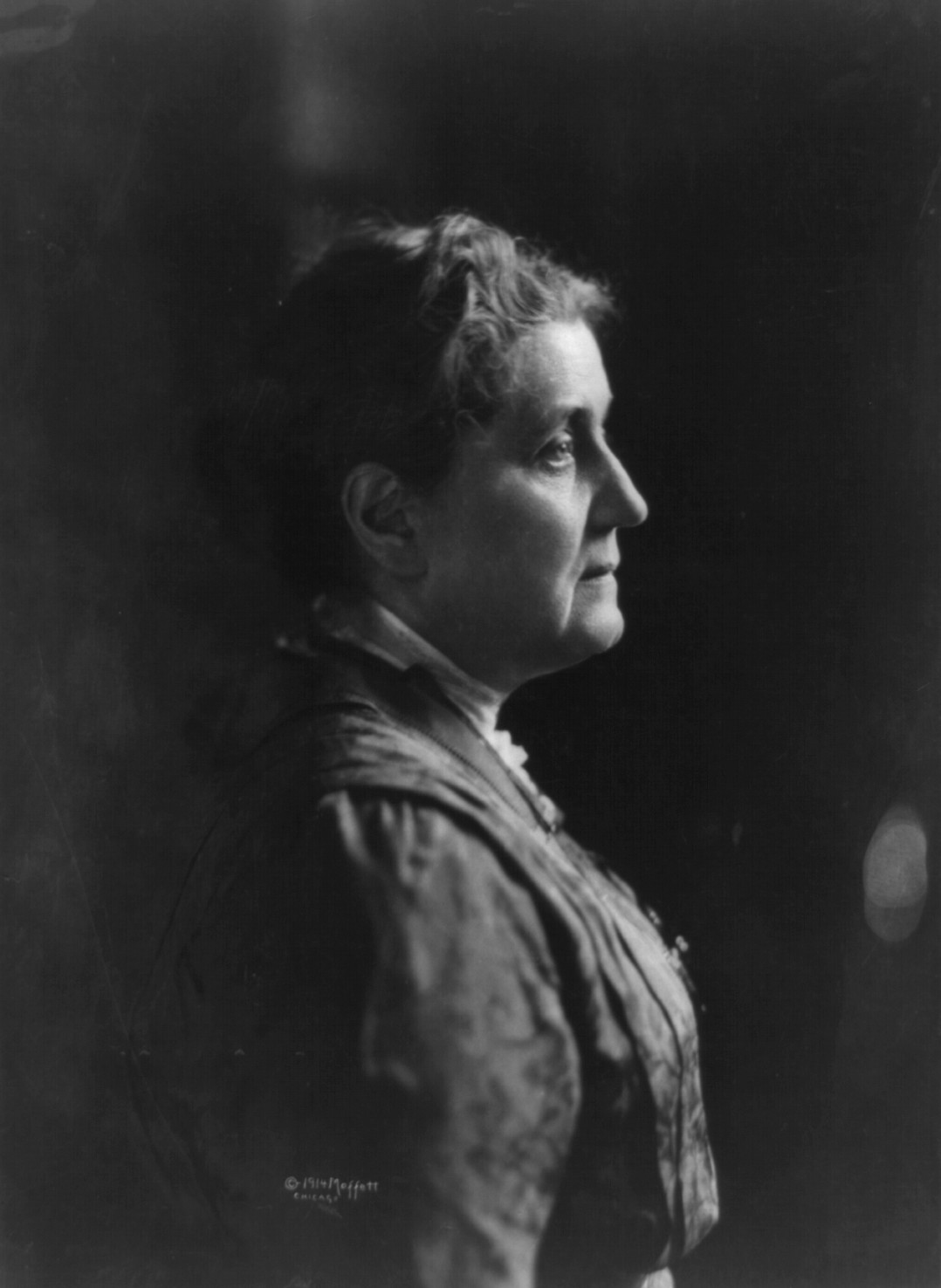 American social reformer, Jane Addams (1860-1935)